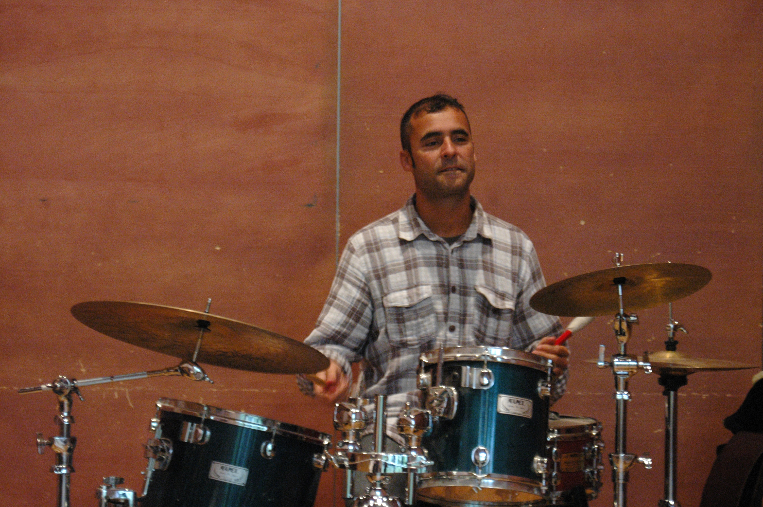 The spanish drumer Diego Martín during a rehersal at Hagen/Westfalia.